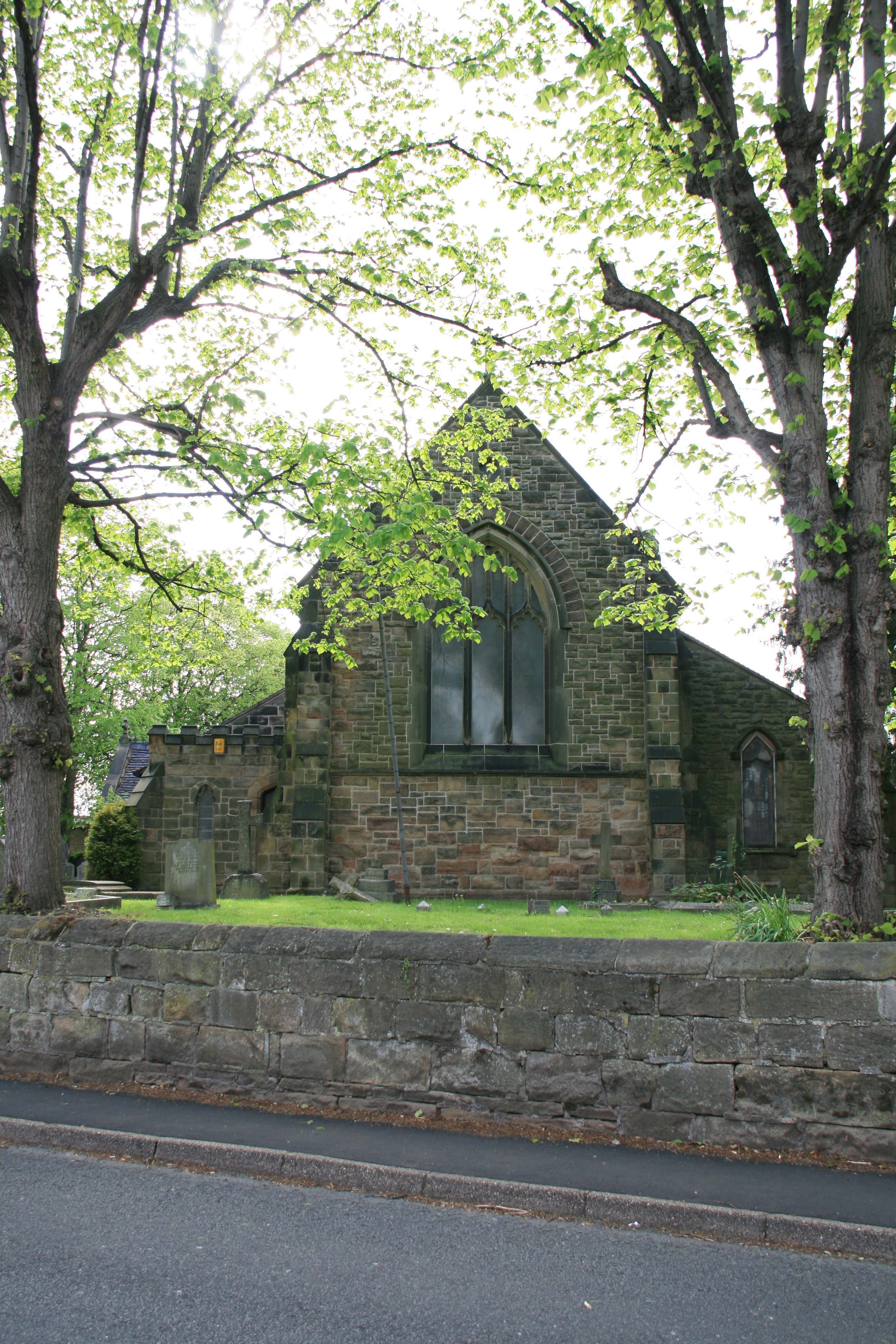 St Mary the Virgin parish church, Boulton, Derby, seen from the east from Boulton Lane